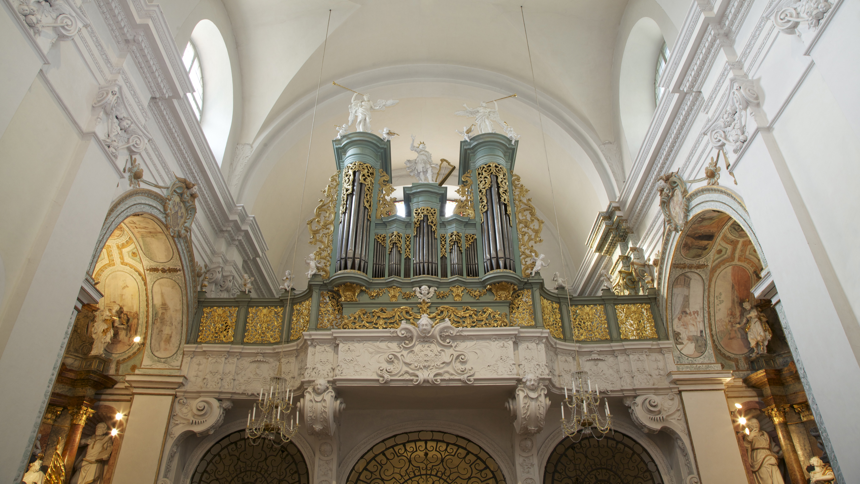 Baroque organ of Mariabrunn, Vienna